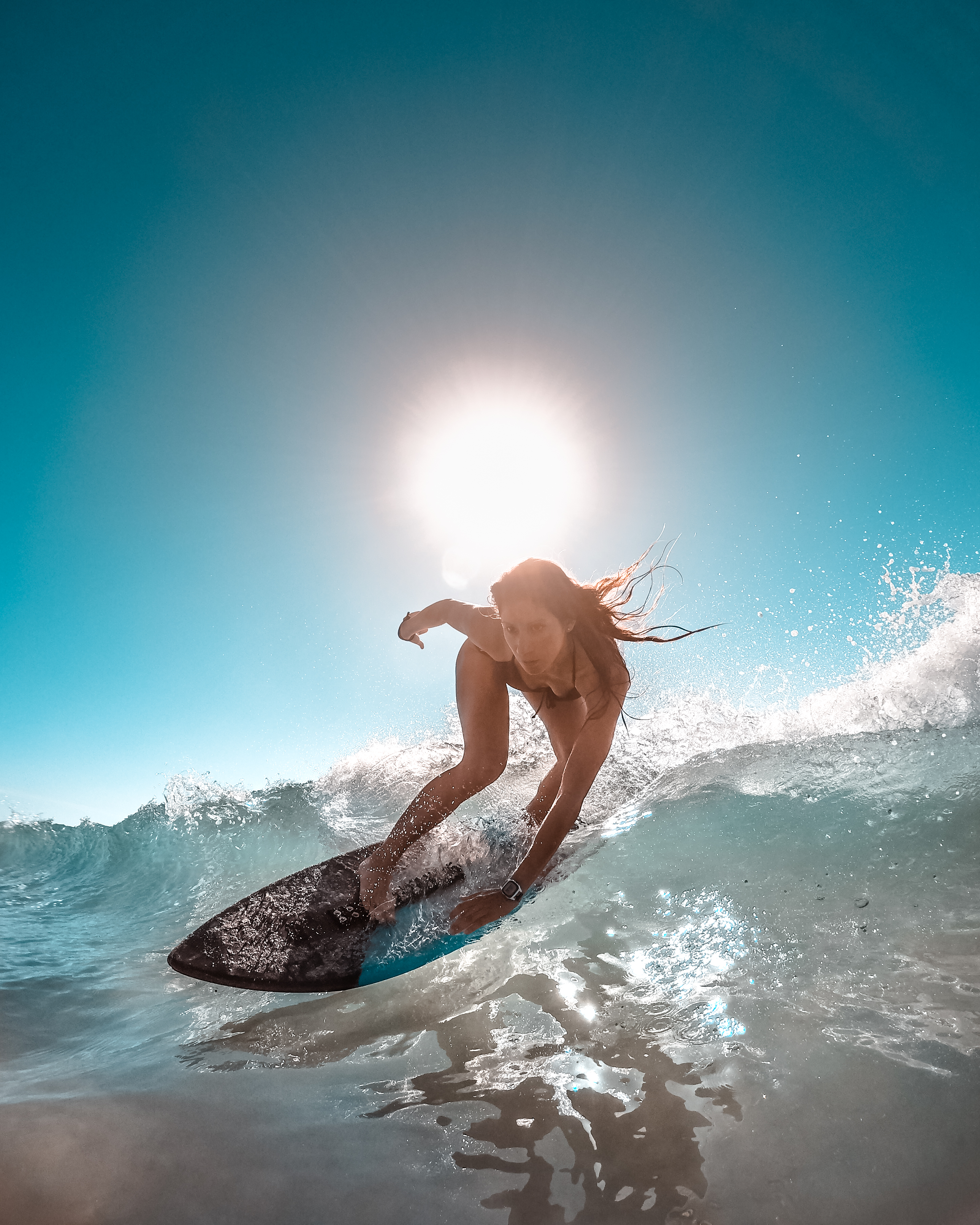 Backside wrap at Thalia St.